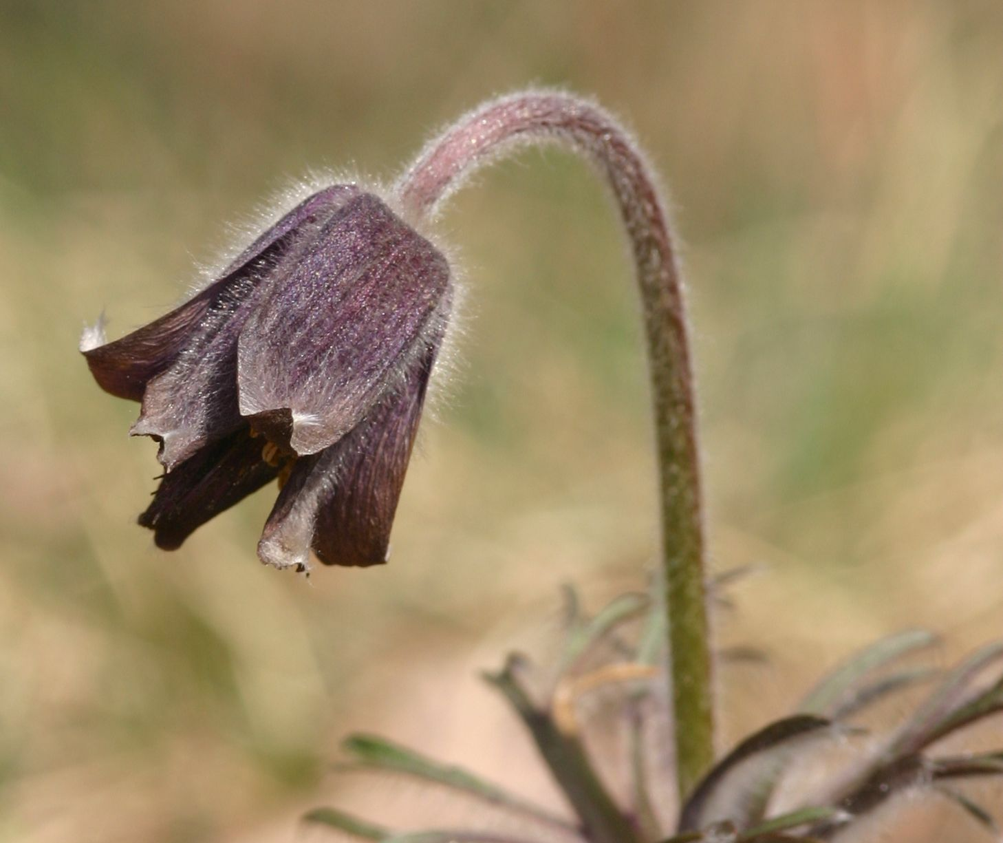 Pulsatilla-pratensis in Berlin 2012